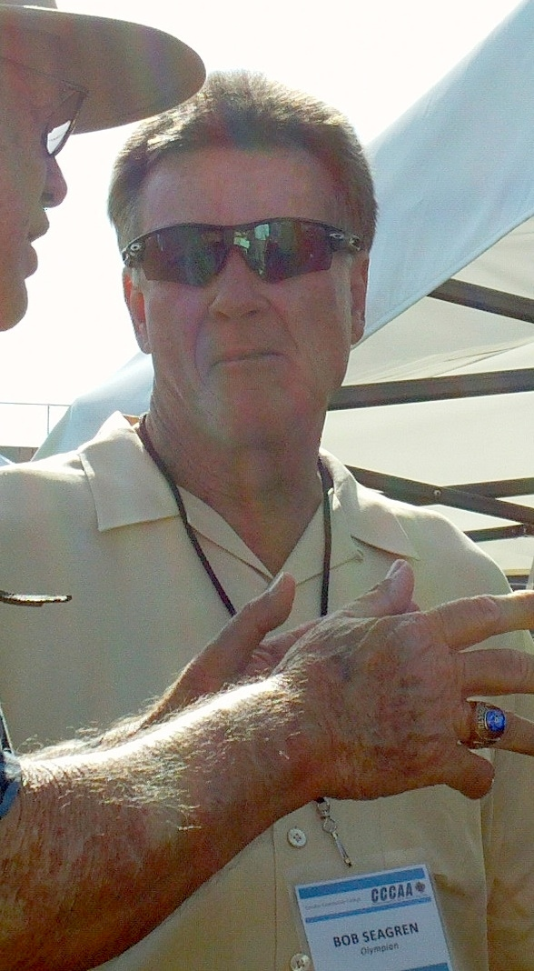 Bob Seagren at the 2012 CCCAA State Championships